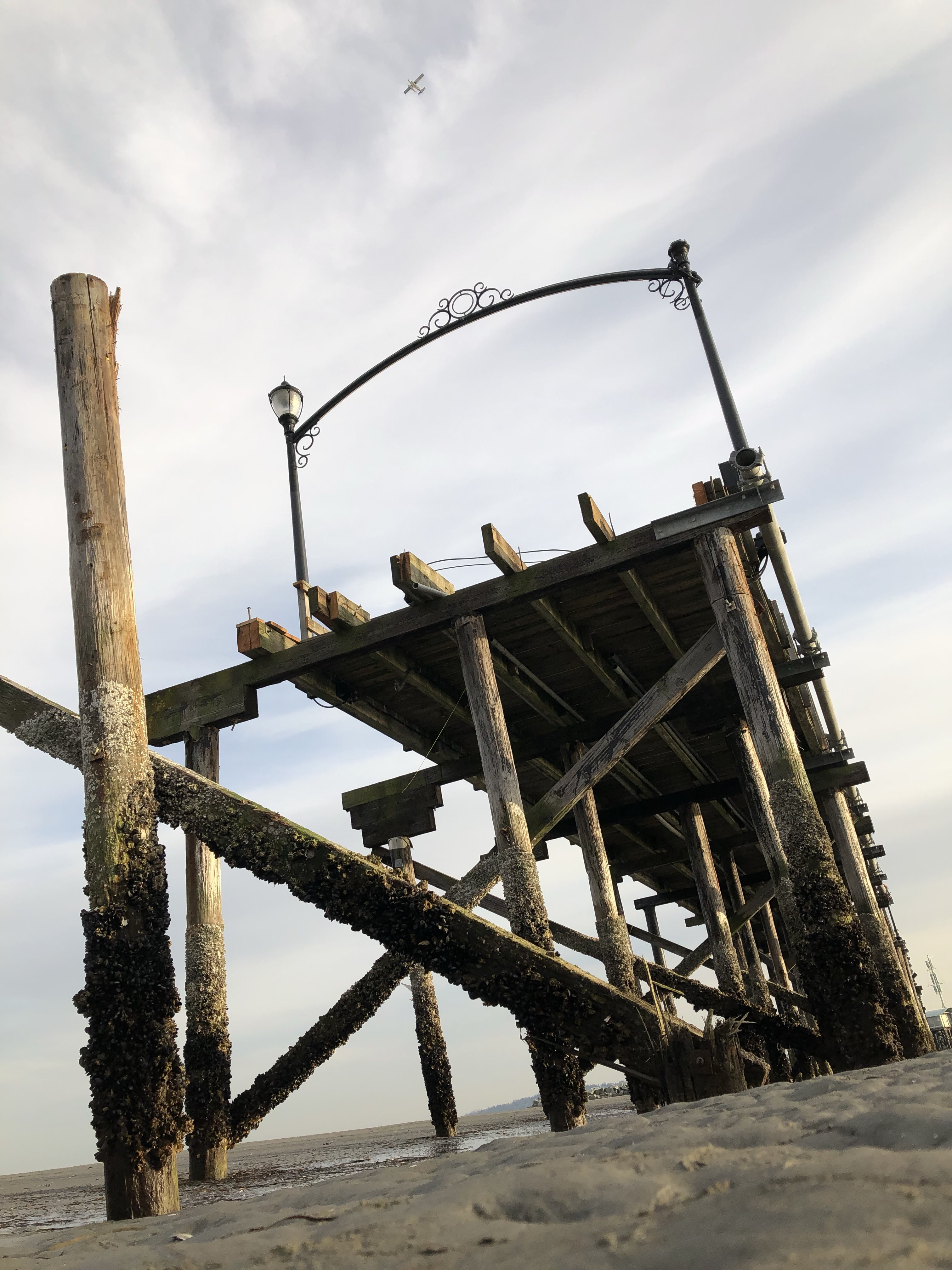 The broken section of White Rock's pier (south side) as of March 2019